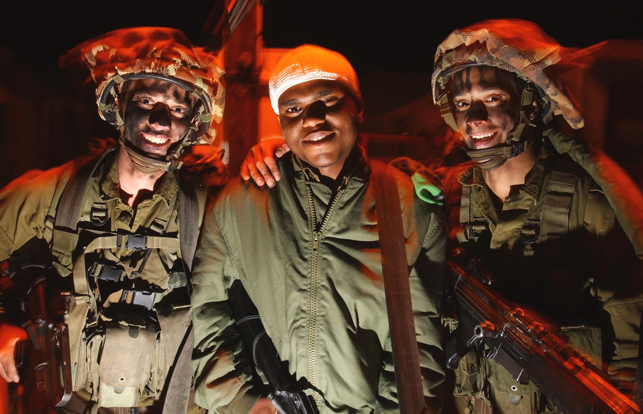 Soldiers of the Nachal Brigade take a break during advanced training. The soldiers practiced exiting and entering "Sa'ar" helicopters. Some of the soldiers who participated in the ground drills are part of the African Hebrew community in Dimona, a group that was founded in Chicago, Illinois in 1969. Here marks the first time a member of the community joined the ground forces of the IDF.